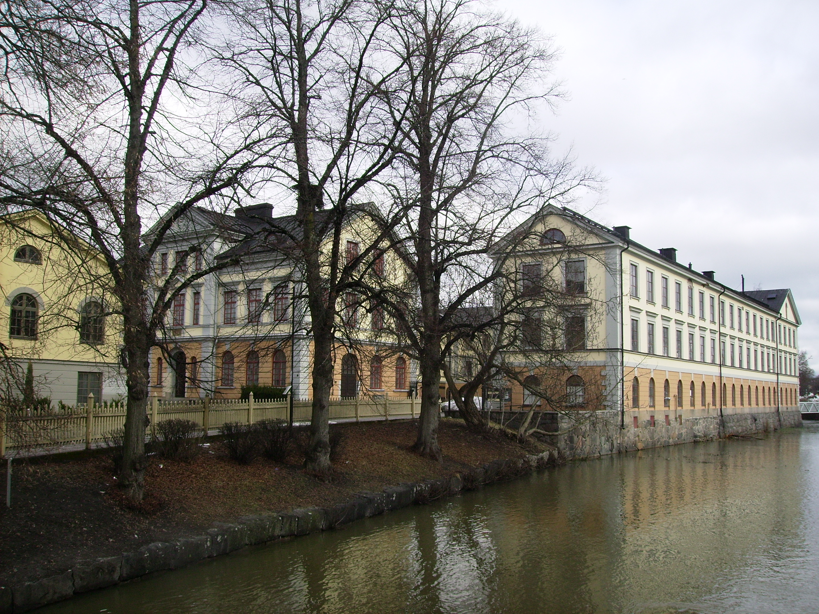 Picture of Eskilstuna stadsmuseum